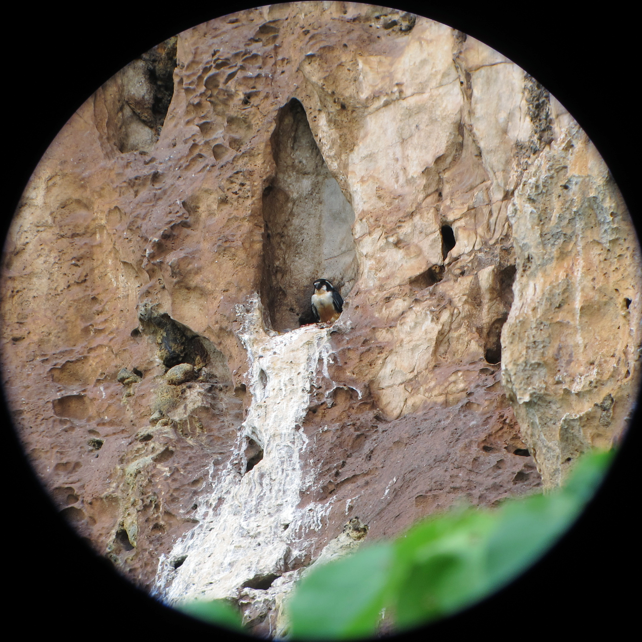 Black-thighed falconet (Microhierax fringillarius) on Breeding place on karst rock in the city of Ipoh in the state of Perak in Malaysia.